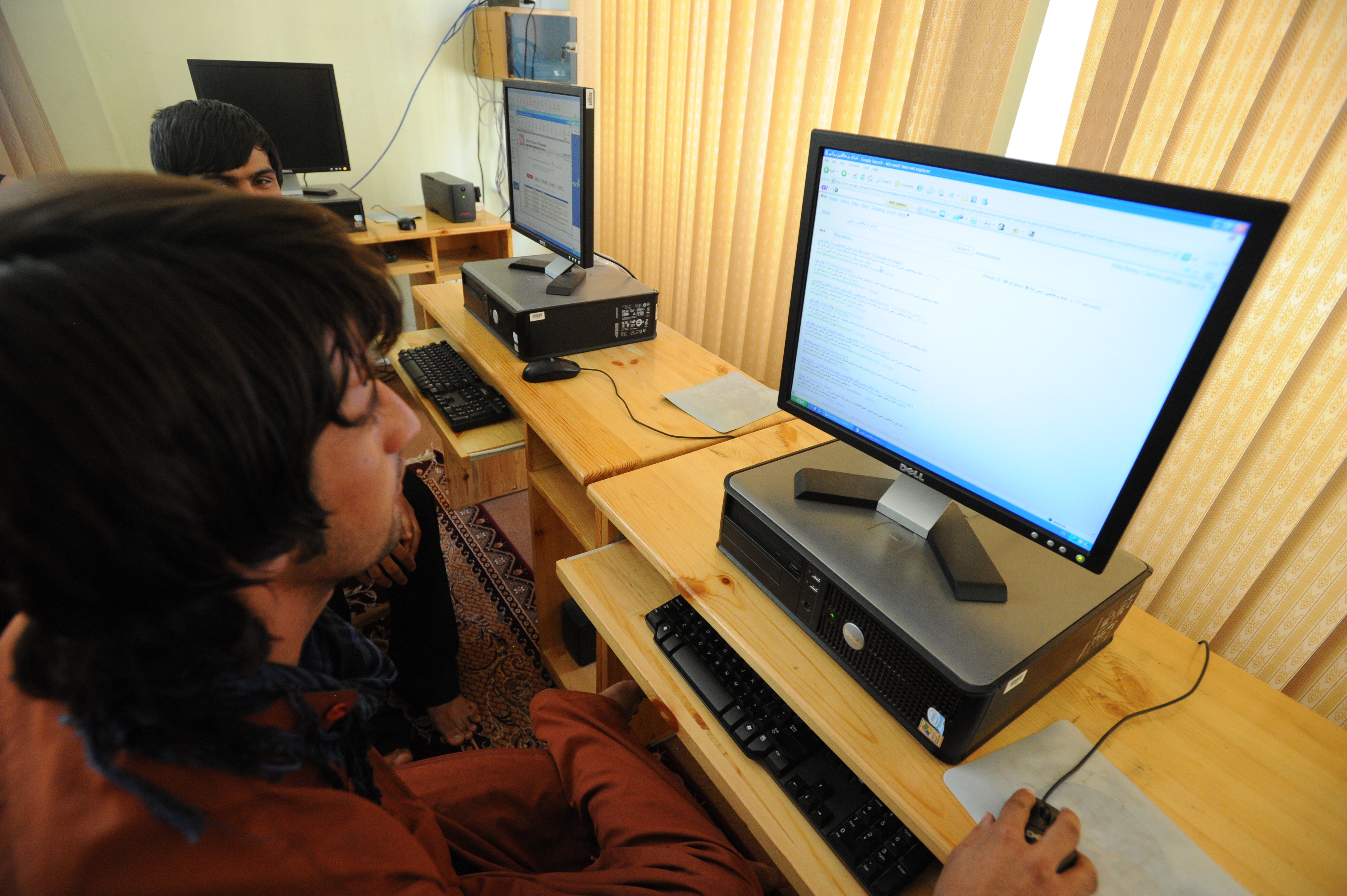 Afghan men using computers at the Lincoln Learning Center (LLC) in Kunduz, Afghanistan.